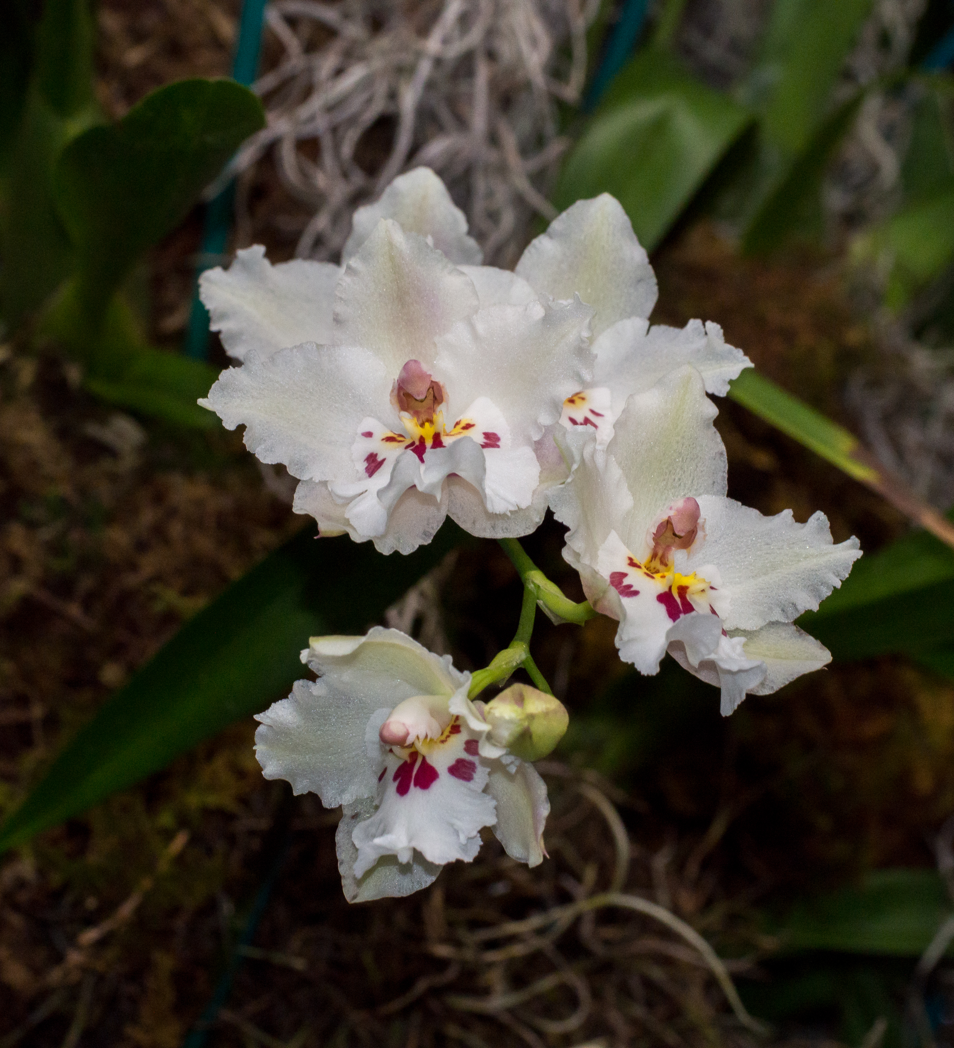 × Miltonidium orchid at the New York Botanical Garden.